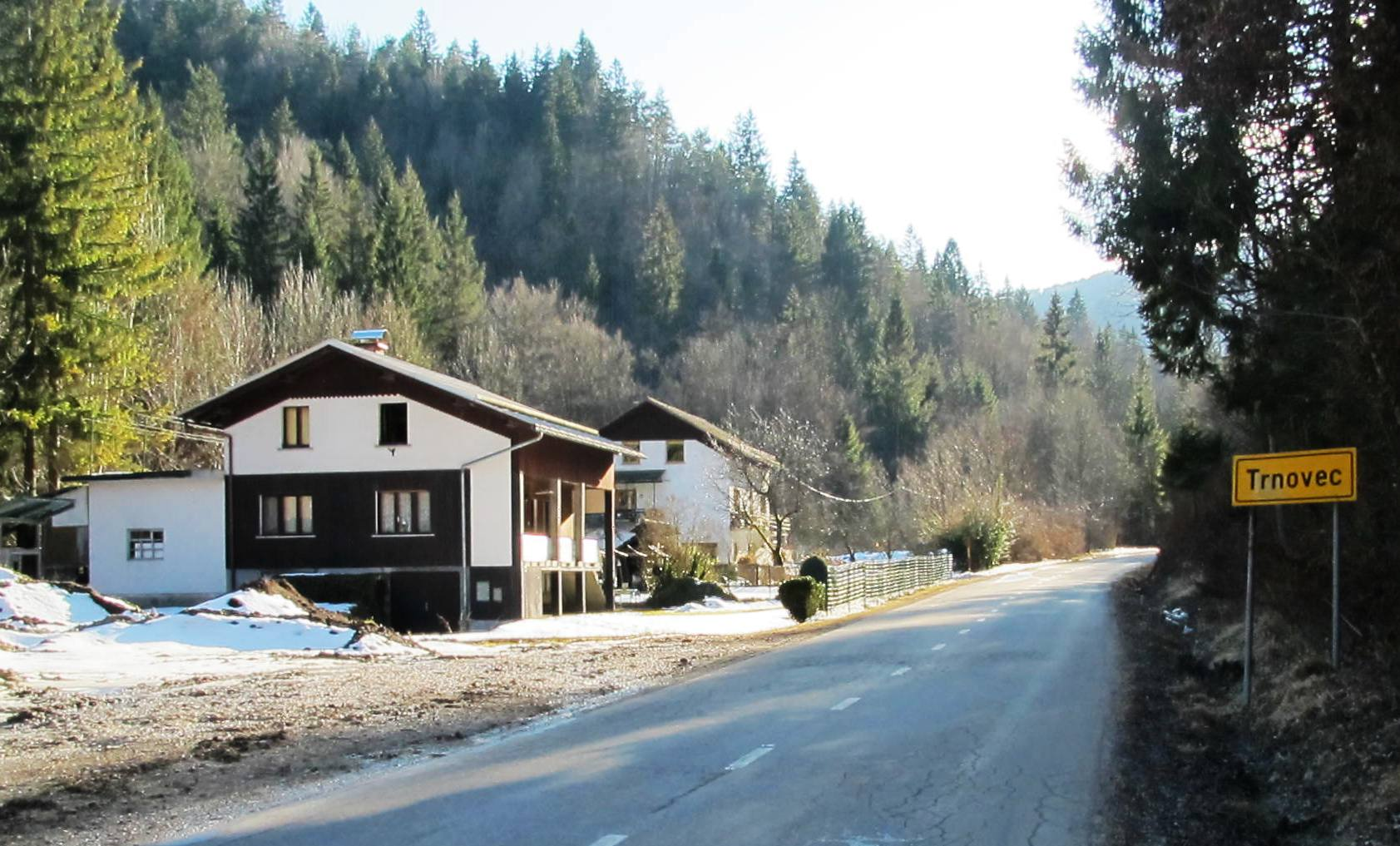 The settlement of Trnovec in the Municipality of Medvode, Slovenia